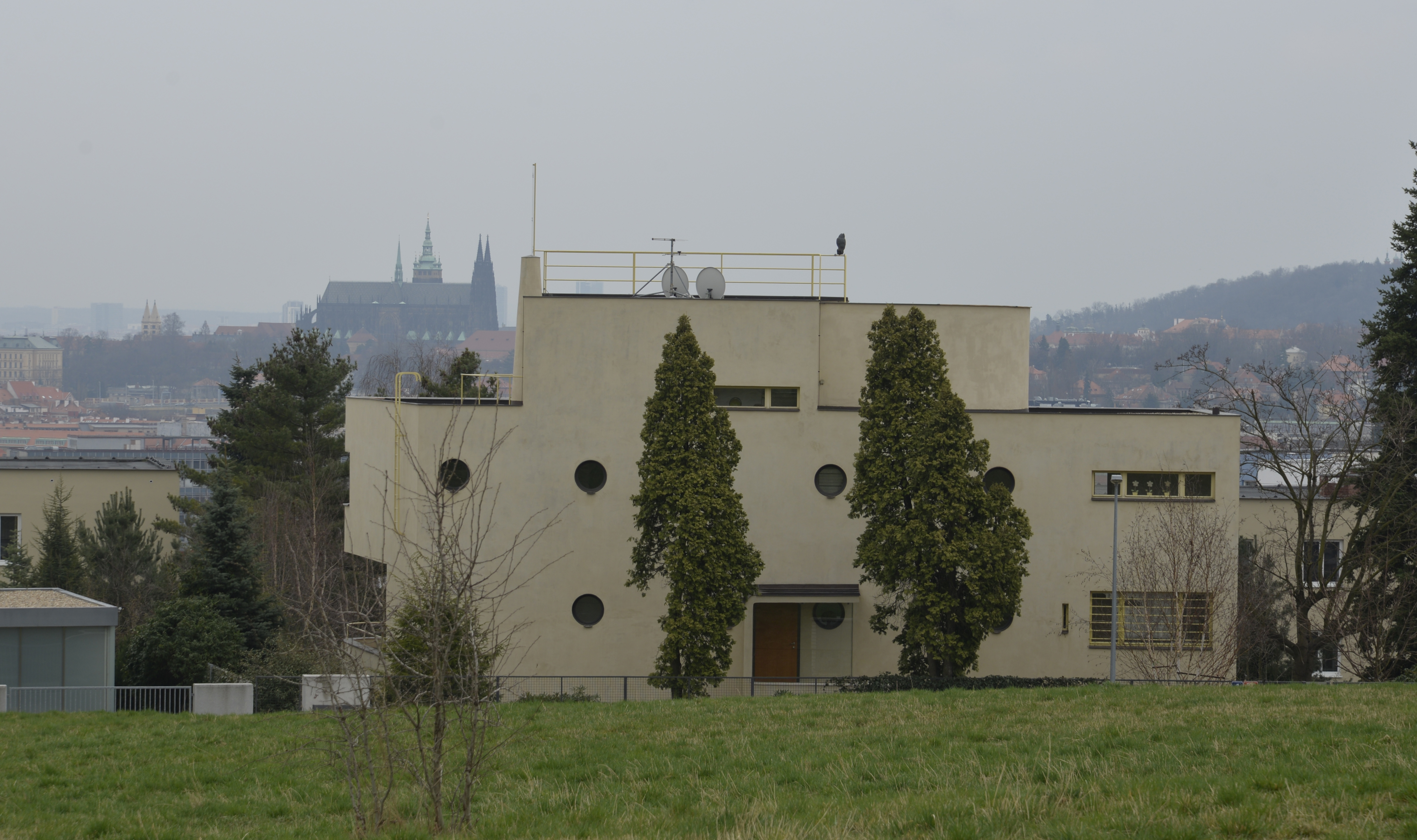 Cultural monument villa No. 677/8, Neherovská street, Dejvice, Prague 6, Czech Republic.